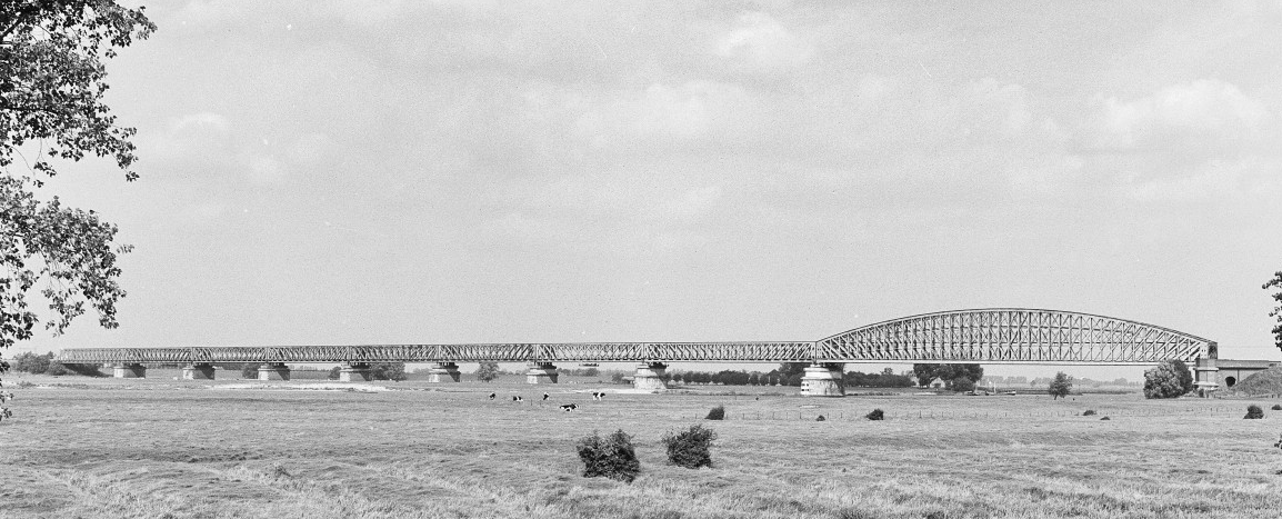 The railway bridge over the river Lek near Culemborg. Built in 1863-1868, replaced in 1983.